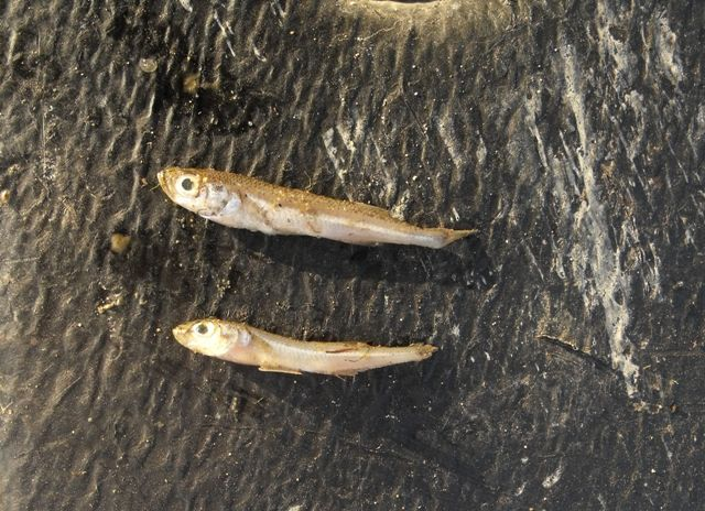 Atherina boyeri dead for drought in a brackish coastal stream in Grosseto province (Tuscany, central Italy). Photo by Massimiliano Marcelli.